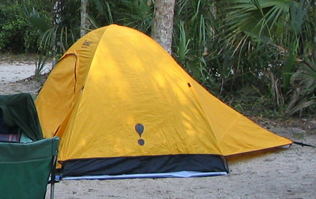 Backpacking tent. Taken by User:Mwanner, January, 2006.